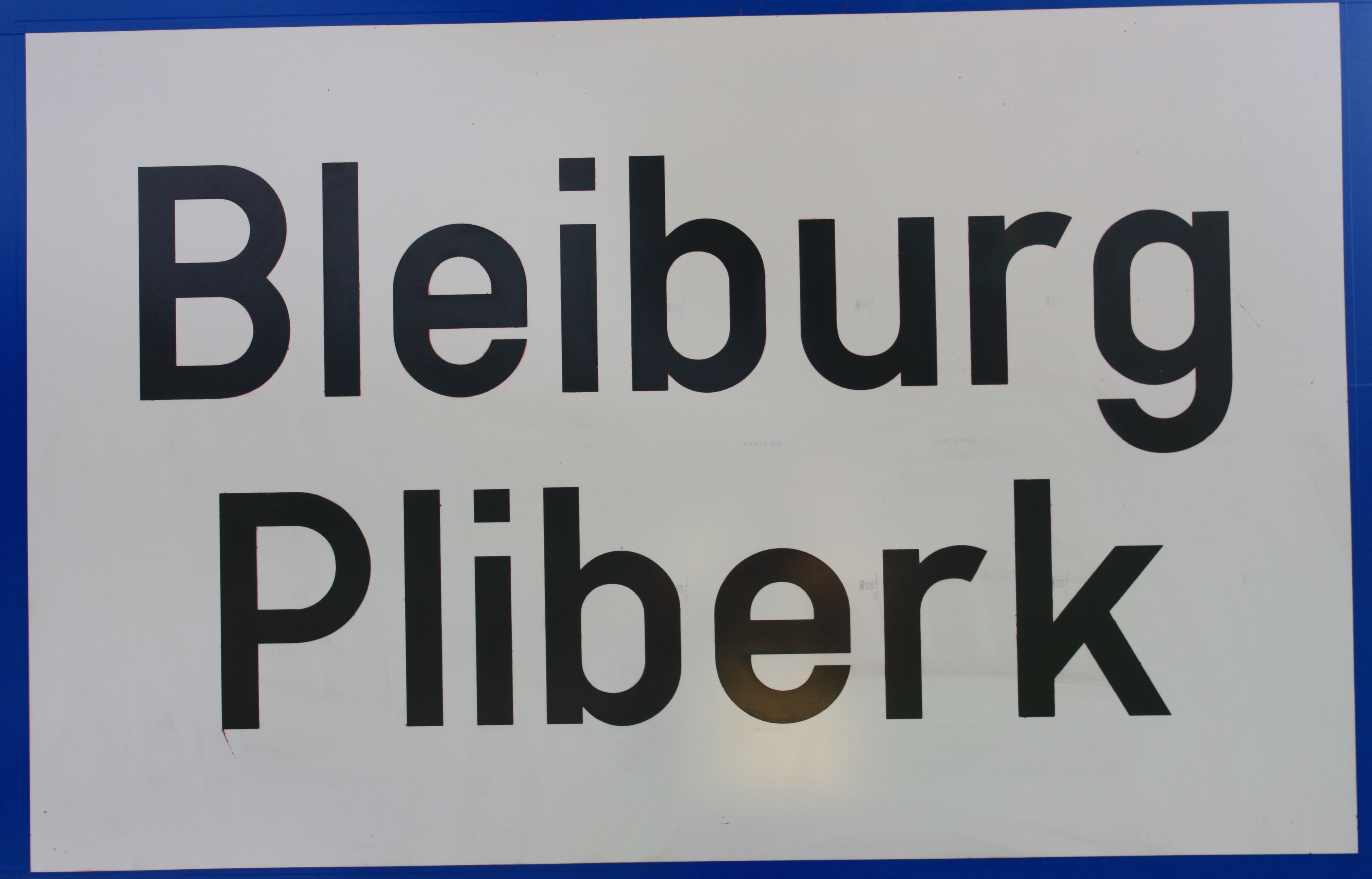 Bilingual city limit sign Locality: Bleiburg/Pliberk Community:Bleiburg